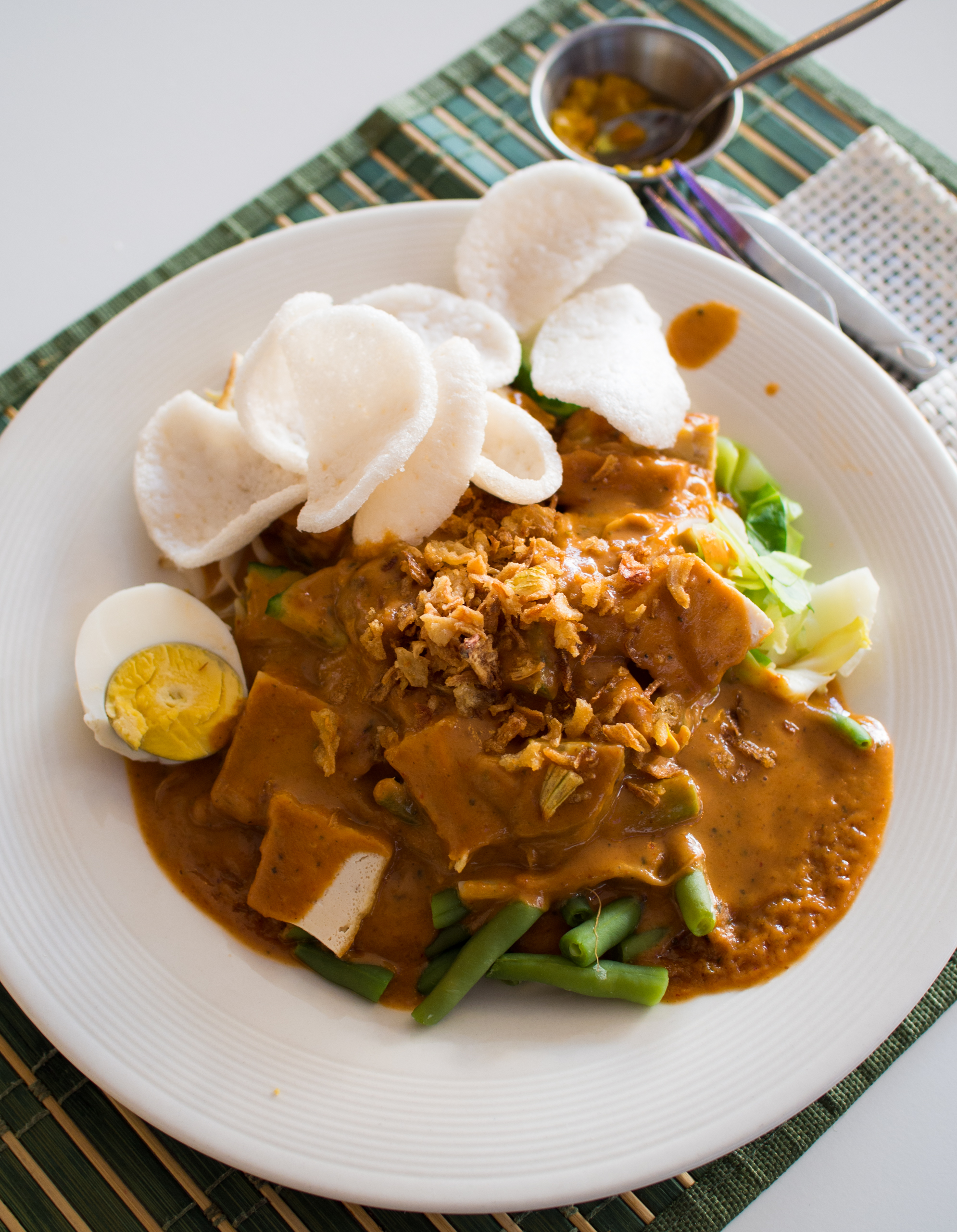 A gado gado at Toko Bali, a small Indonesian eatery and takeaway in the Leidsenhage shopping mall.